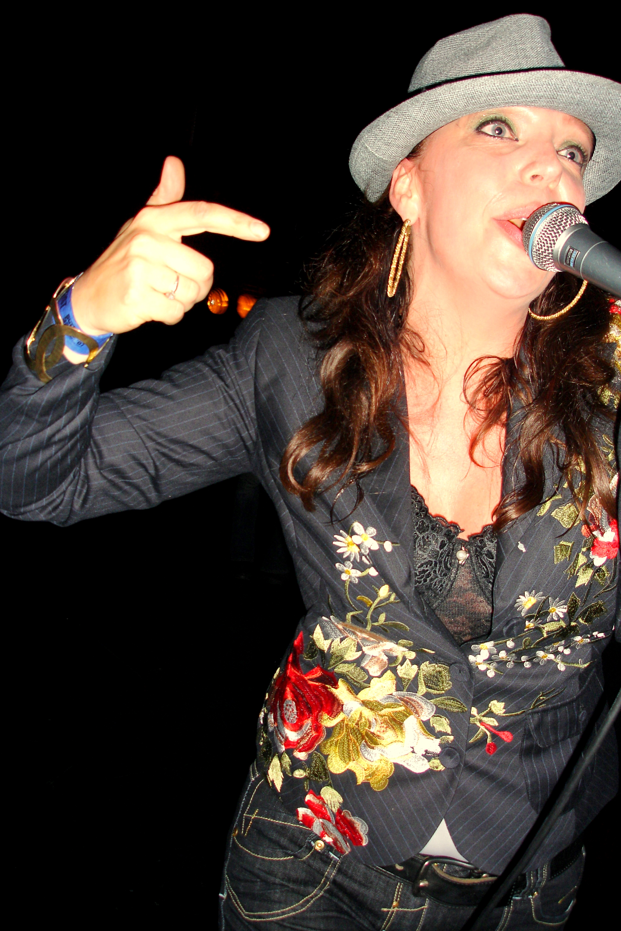 The Dutch jazz singer Moon Baker.